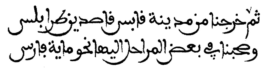 Sample of maghribi style based on a manuscript by a calligrapher of Constantine, circa 1856.